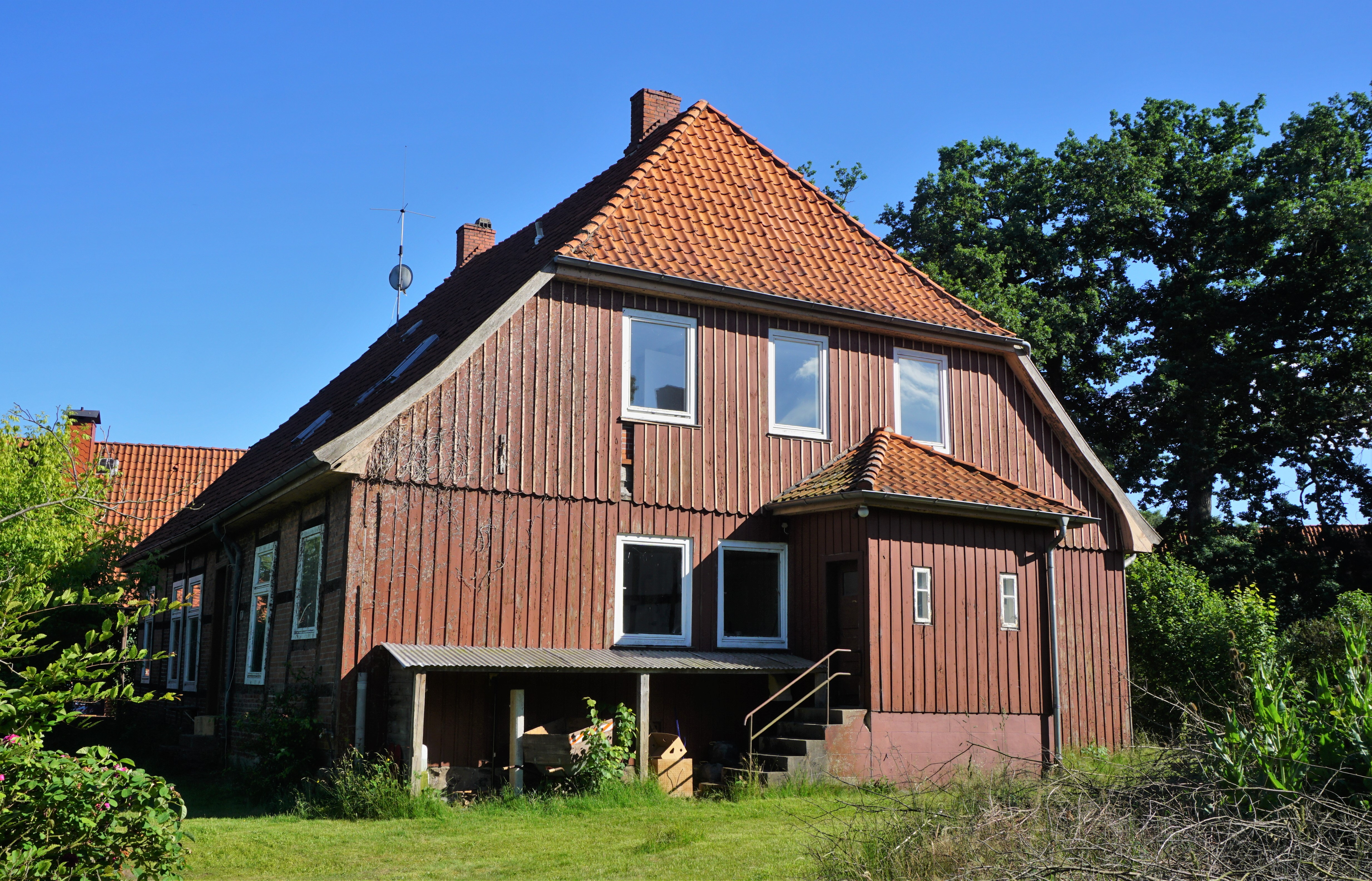 Clergy house of Wichmannsburg in Bienenbüttel. Listed half-timbered house.